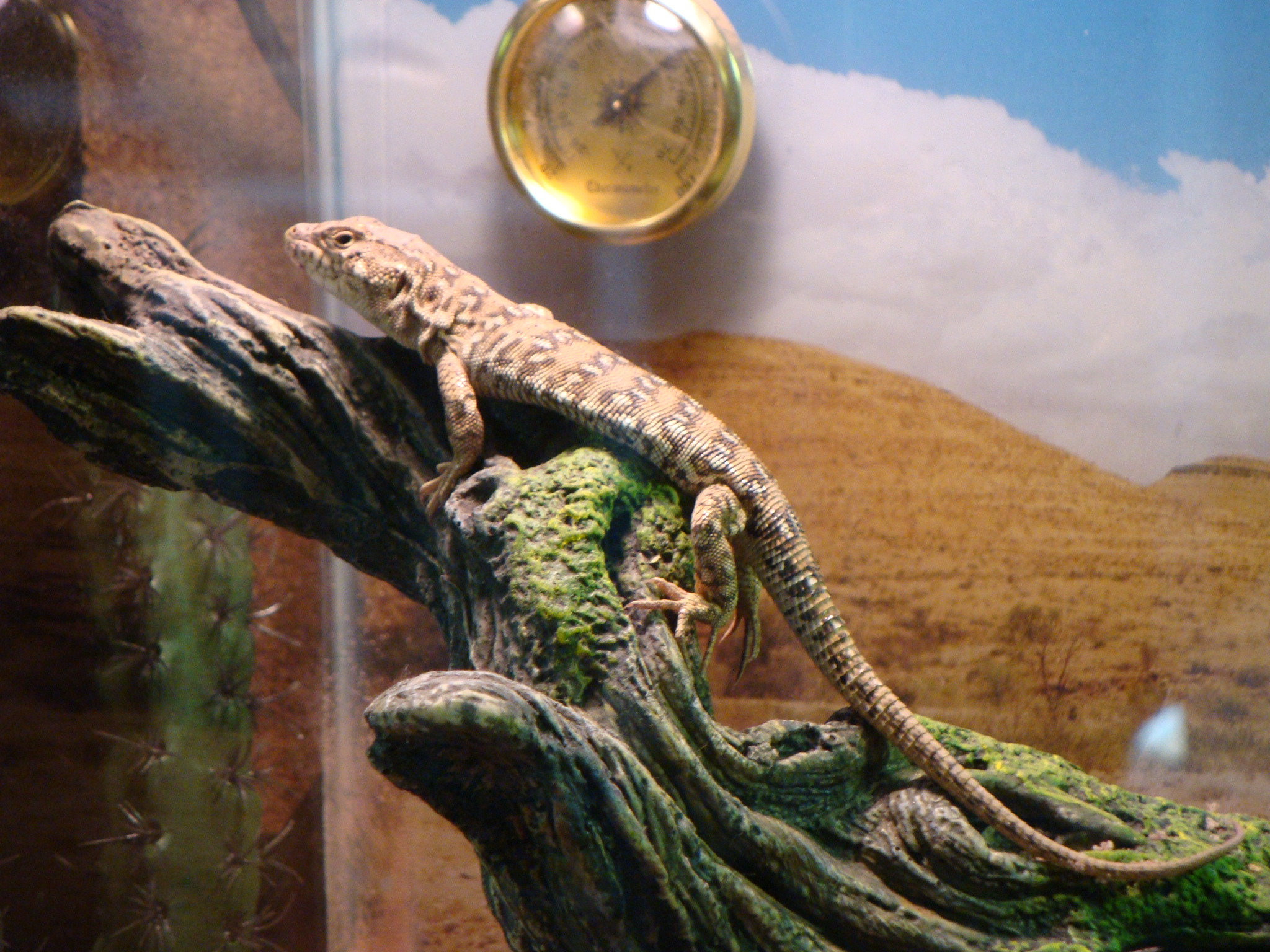 This Steppe Runner enjoys basking under the heat lamp of his vivarium.